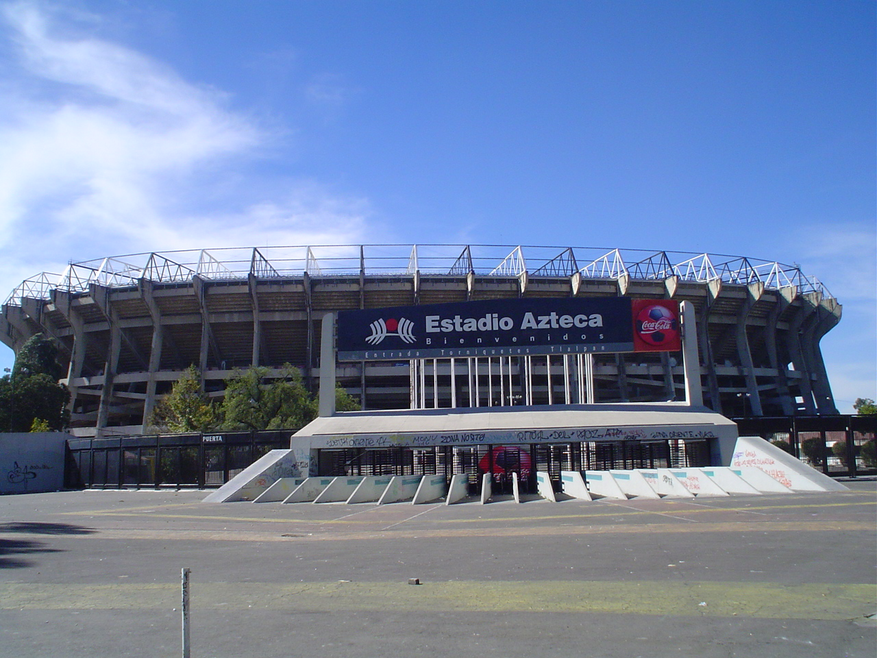 Stadium entrance on a sunny day.